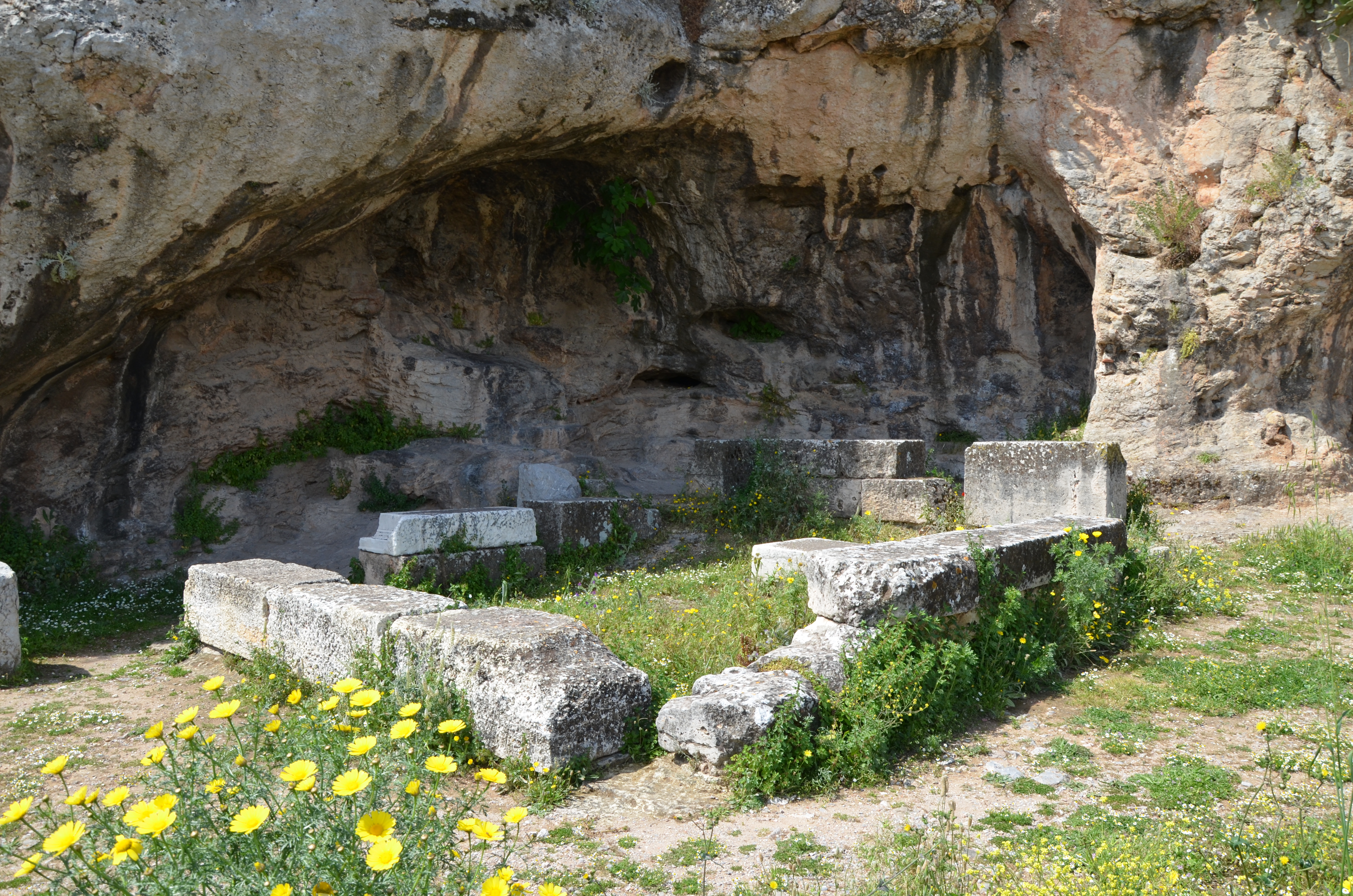 Peribolos wall and small temple with cella and pronaos opening east. Sanctuary of Pluto (Hades), god of the Underworld, who abducted Persephone. Situated to the west of the Small Propylaea. This area of the cavern recalls the entrance to Hades: it was associated with the abduction of Persephone by Pluto in the autumn and her ascent to earth again in the spring. The myth is connected with the fructification of the earth after the sowing of the seed, which was regarded as Demeter's gift to the human race. The temple of Pluto is Archaic in date but was remodeled on many occasions from the fourth century BC down to Roman times.